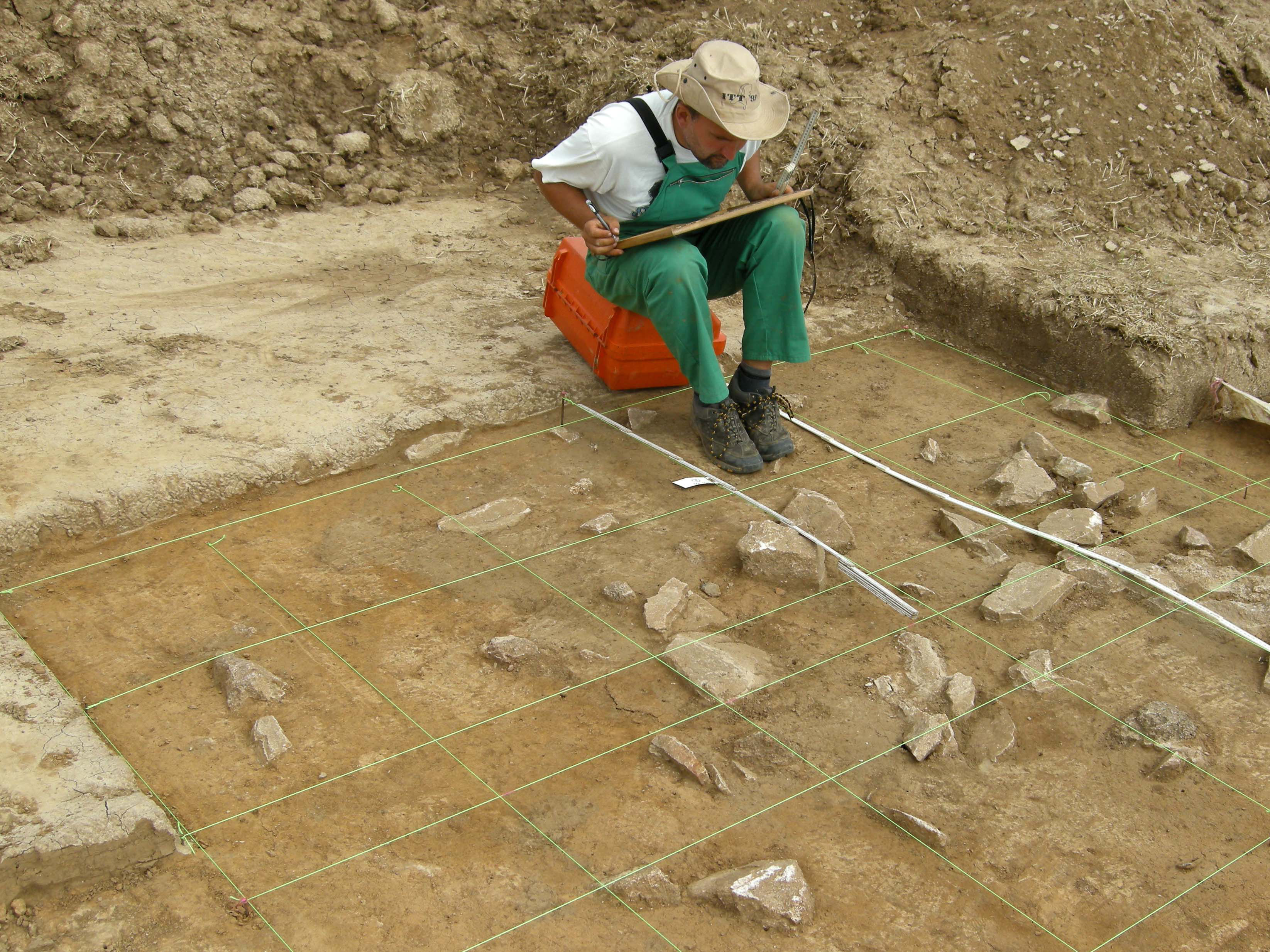 archaeological site technician